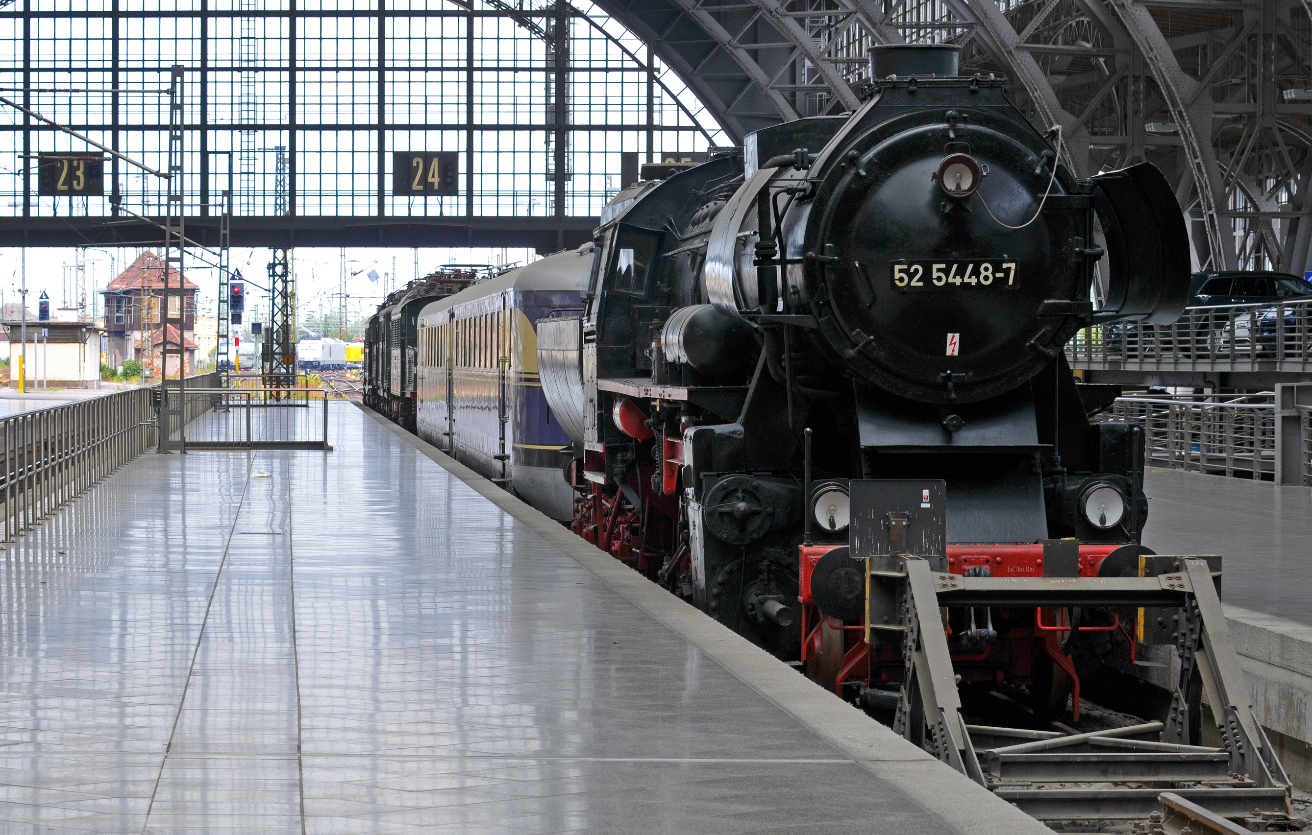 The Schichau-Werke built this Tank locomotive No. 52 5448-7 in 1943. The Schichau-Werke was a German engineering works and shipyard based in Elbing, formerly part of the German Empire, and which is today the town of Elbląg in northern Poland. Since 1992 this Tank locomotive No. 52 5448-7 belongs to the club "Eisenbahnmuseum Bayerischer Bahnhof zu Leipzig e. V.". The photo was taken at the Museum track in the Leipzig main railway station in Germany.